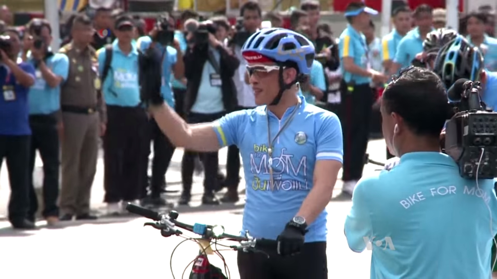 Thai Prince Leads Cyclists as Monarchy Approaches Crossroad